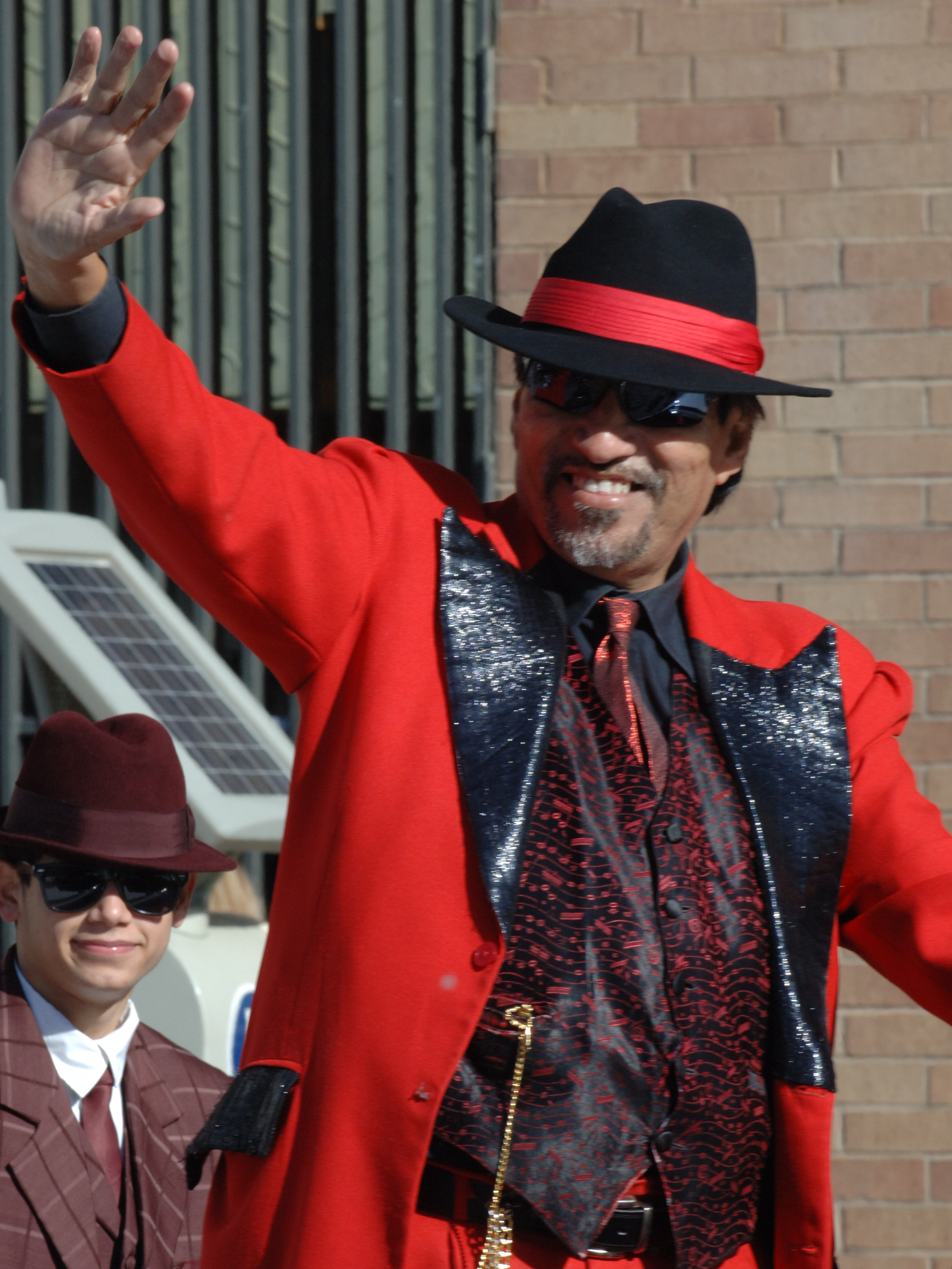 Pancho Claus in downtown Houston, Texas, US